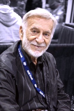 Jerry Robinson at Comic Con International in San Diego 2008